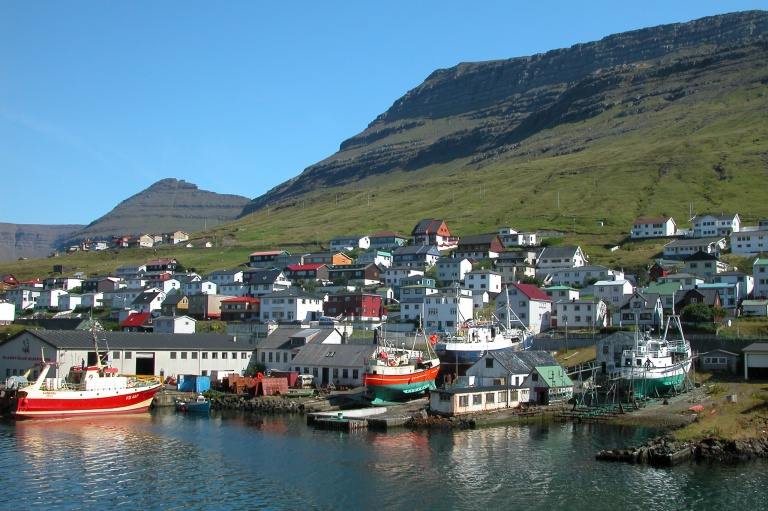 Shipyard in Klaksvík, Faroe Islands